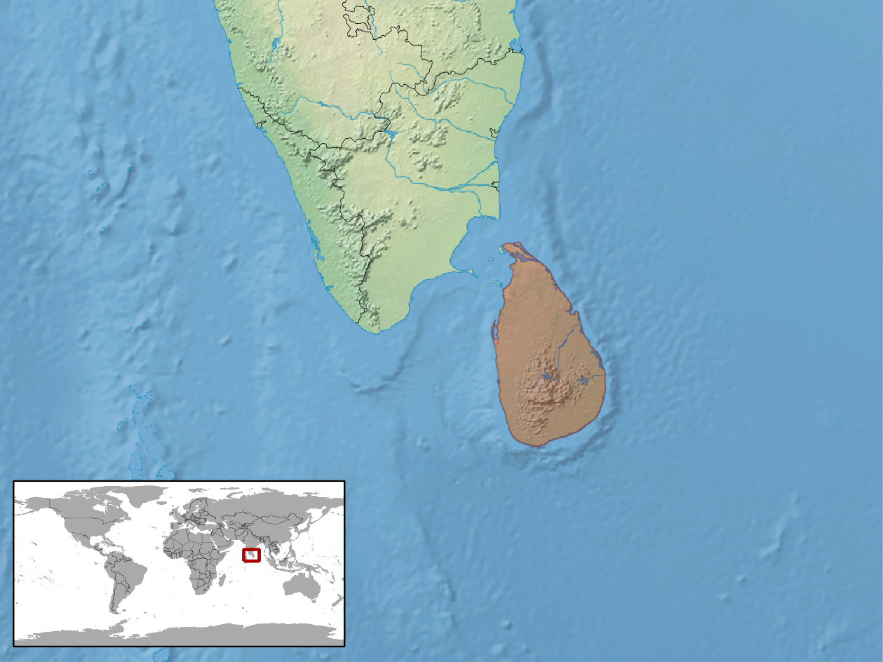 geographic distribution of Cnemaspis podihuna (Native: Sri Lanka)